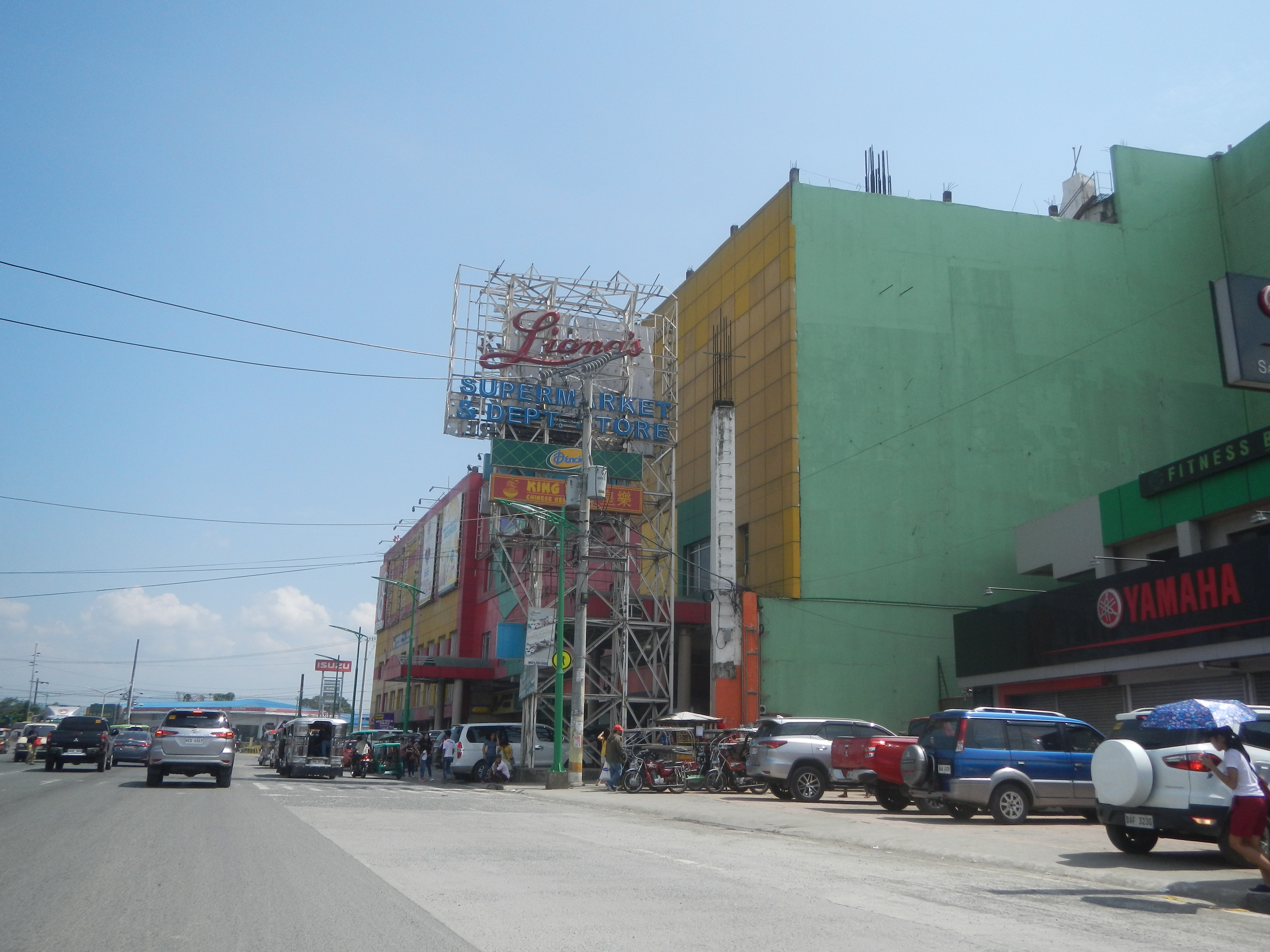 Maharlika Highway (San Rafael-Santa Anastacia, Santiago - Poblacion, Santo Tomas) Category:Barangays of Batangas Category:Barangays of Santo Tomas, Batangas Barangay Santiago 14°6'51"N 121°8'29"E Santo Tomas, Batangas along Maharlika Highway (Santo Tomas, Batangas section) Pan-Philippine Highway; (Note: Judge Florentino Floro, the owner, to repeat, Donor Florentino Floro of all these photos hereby donate gratuitously, freely and unconditionally Judge Floro all these photos to and for Wikimedia Commons, exclusively, for public use of the public domain, and again without any condition whatsoever).